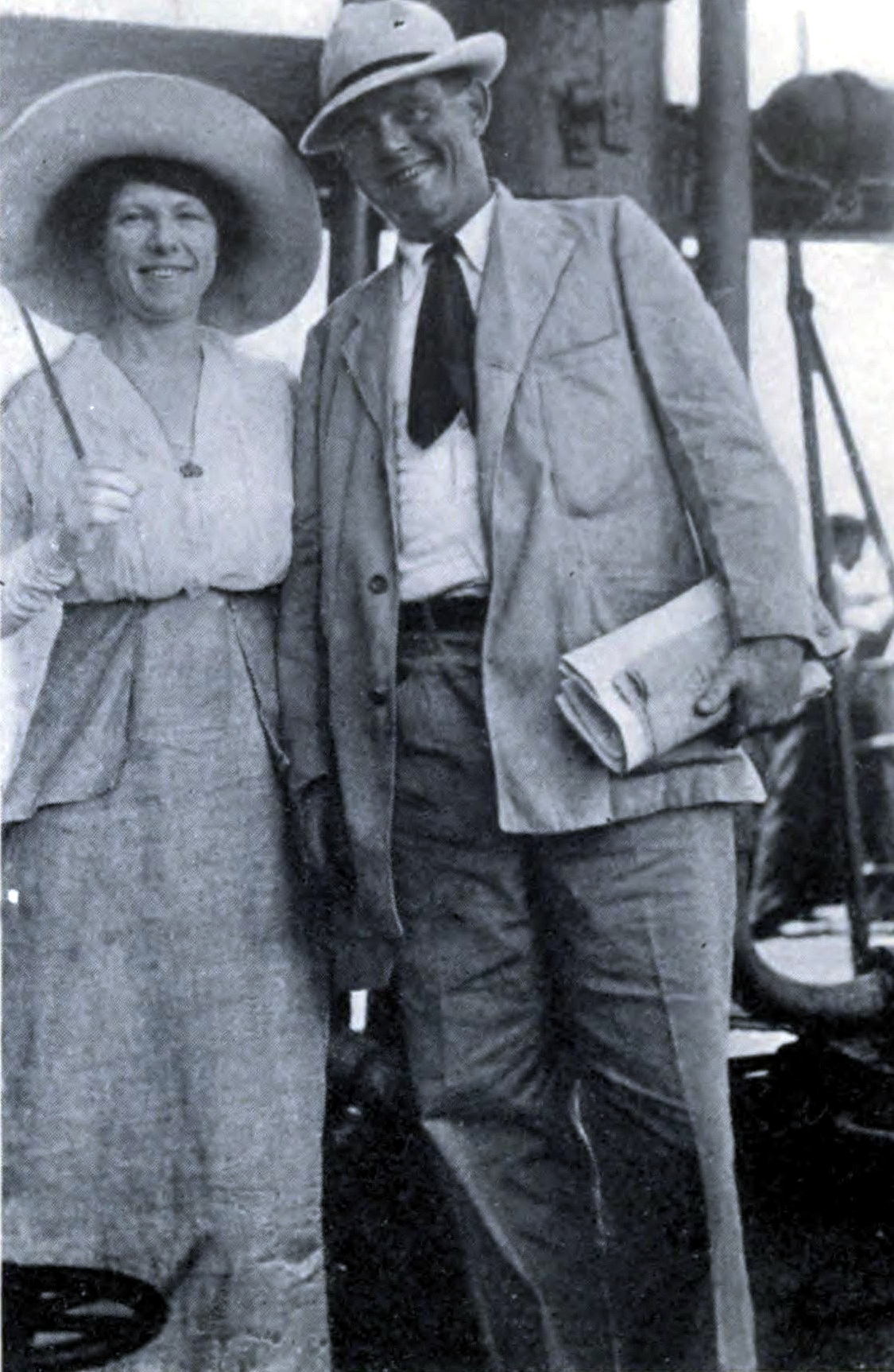 Jack London and his wife Charmian in Vera Cruz, Mexico, 1914